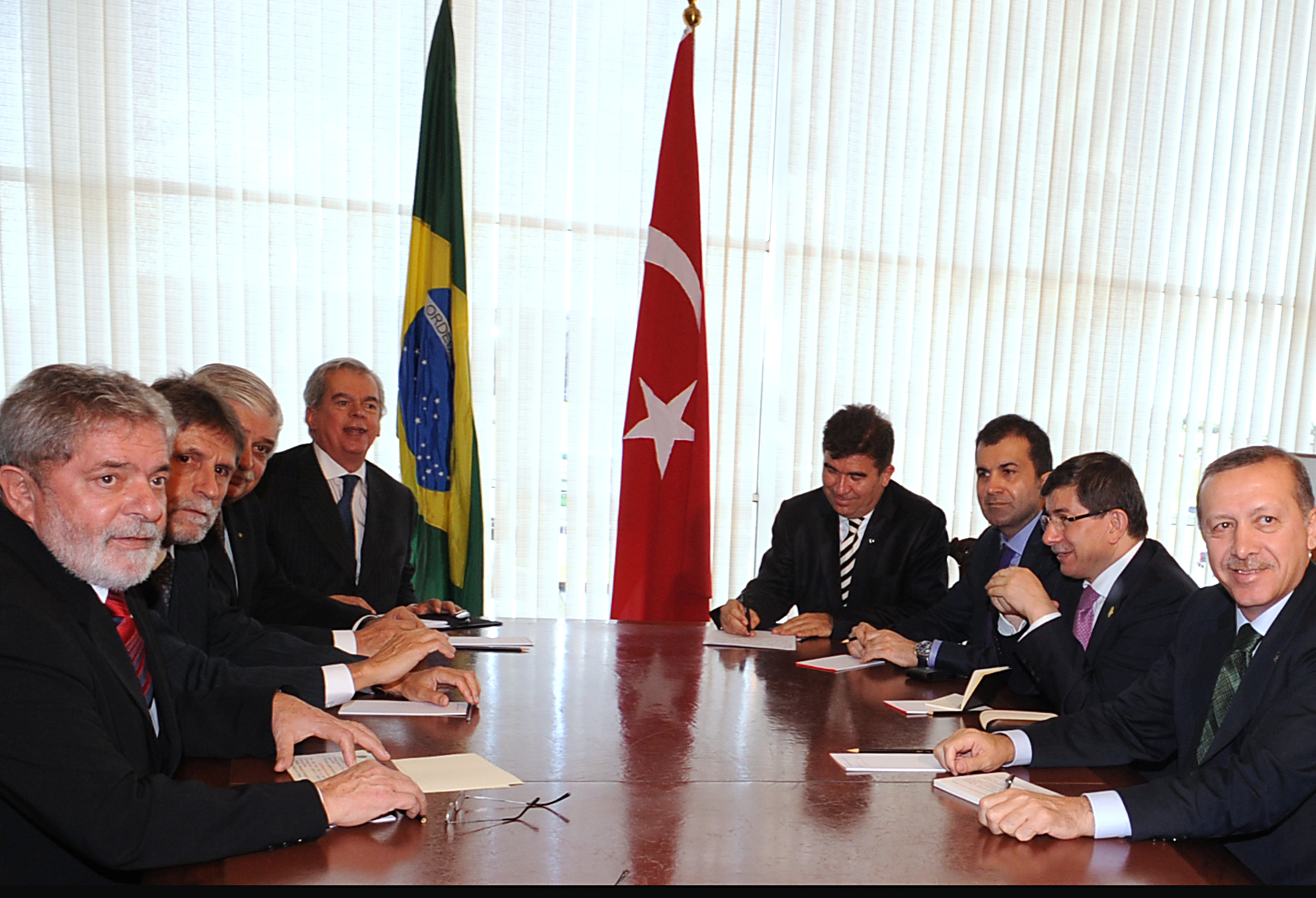 Brazilian President Lula and Turkish Prime Minister Recep Tayyip Erdogan.